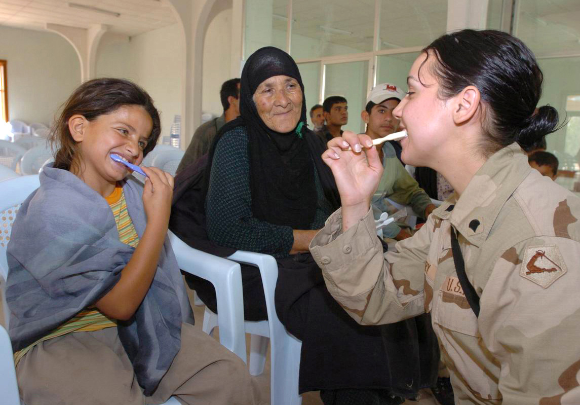 Spc. Elizabeth Jarry shows an Iraqi girl proper tooth-brushing techniques during a 13th Corps Support Command Medical Civil Action Project in Bakr Village, Iraq. Jarry is a dental technician from the 118th Medical Battalion, Connecticut Army National Guard, operating from Logistical Supply Area Anaconda in Balad, Iraq, during Operation Iraqi Freedom. This photo appeared on